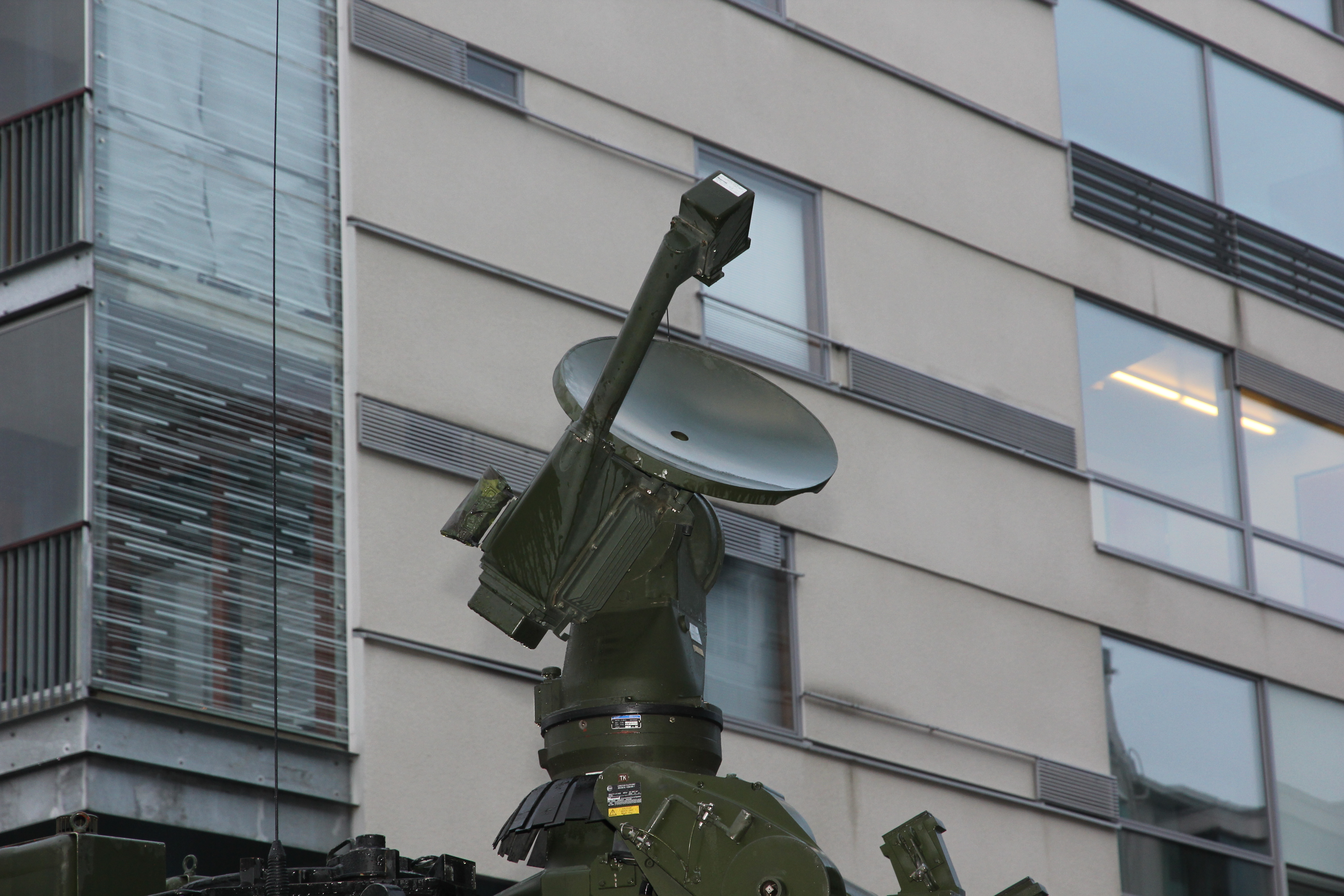 Marconi S-400 radar of Finnish Leopard 2 Marksman (ItPsv 90 Marksman) Ps 473-100 self-propelled anti-aircraft artillery. Photographed in Jyväskylä on Finnish Independence day 2015.